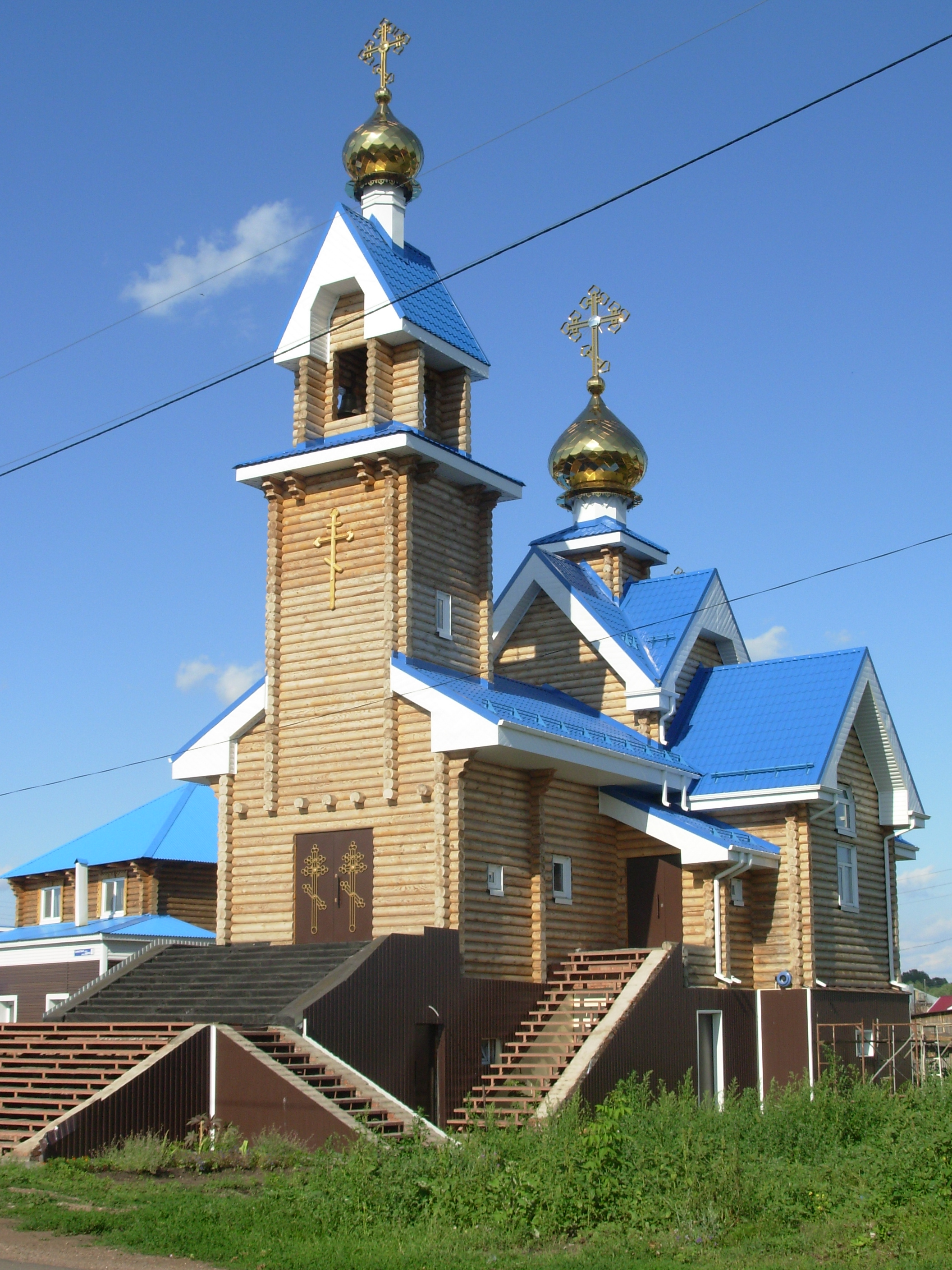 street